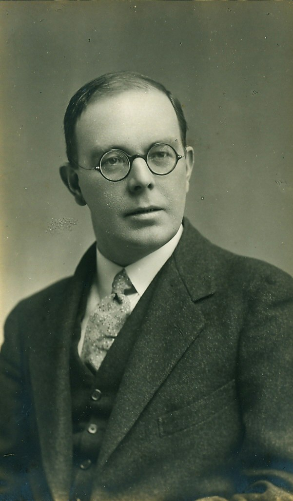 Image of Cyril Burt from his archive in the University of Liverpool, D191/43/2